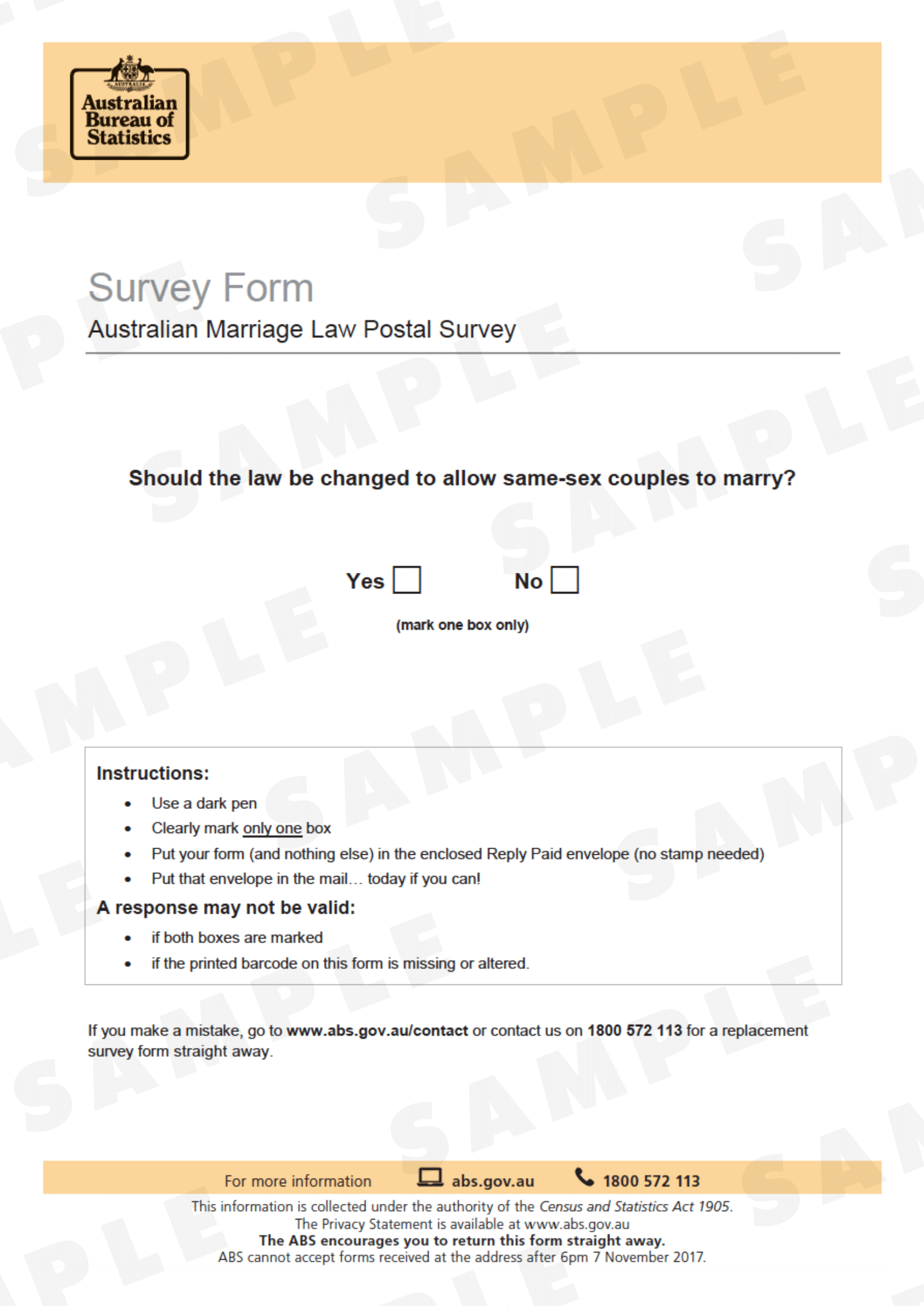 A sample image of the Australian Marriage Law Postal Survey response form